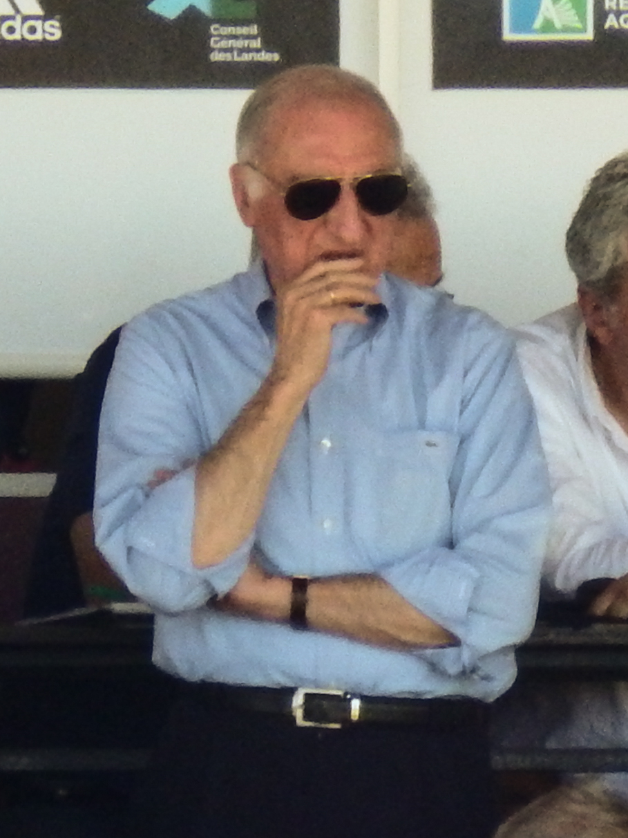 Pro D2 2014-2015 — 10 May 2015, Stade Maurice-Boyau. Match between: US Dax — Biarritz Olympique